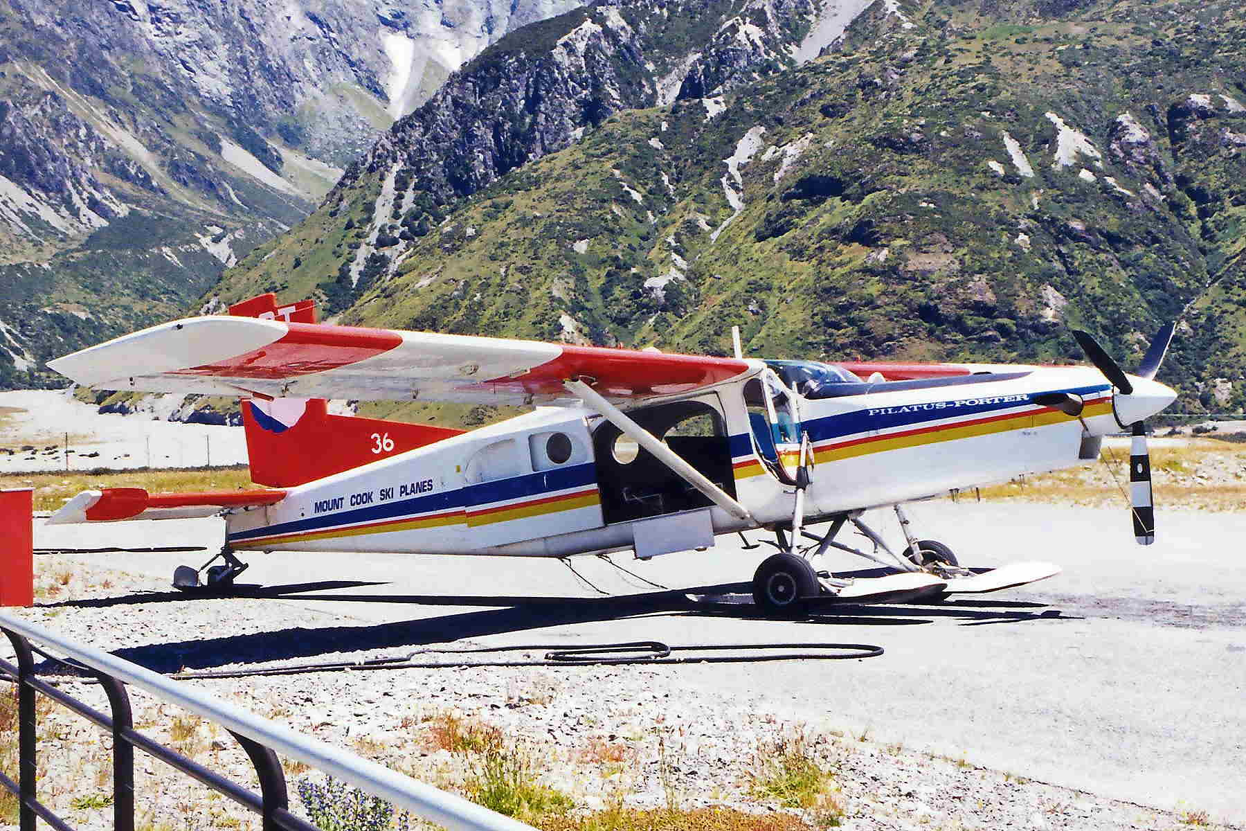 Mount Cook, South Island, New Zealand Most light aircraft in New Zealand don't usually display the national 'ZK' prefix on the registration, just the last three letters. I guess it's not necessary as they never go outside New Zealand. The nearest 'land' is Australia which, even if it had the range, would be about 8/9 hours away for aircraft of this size.